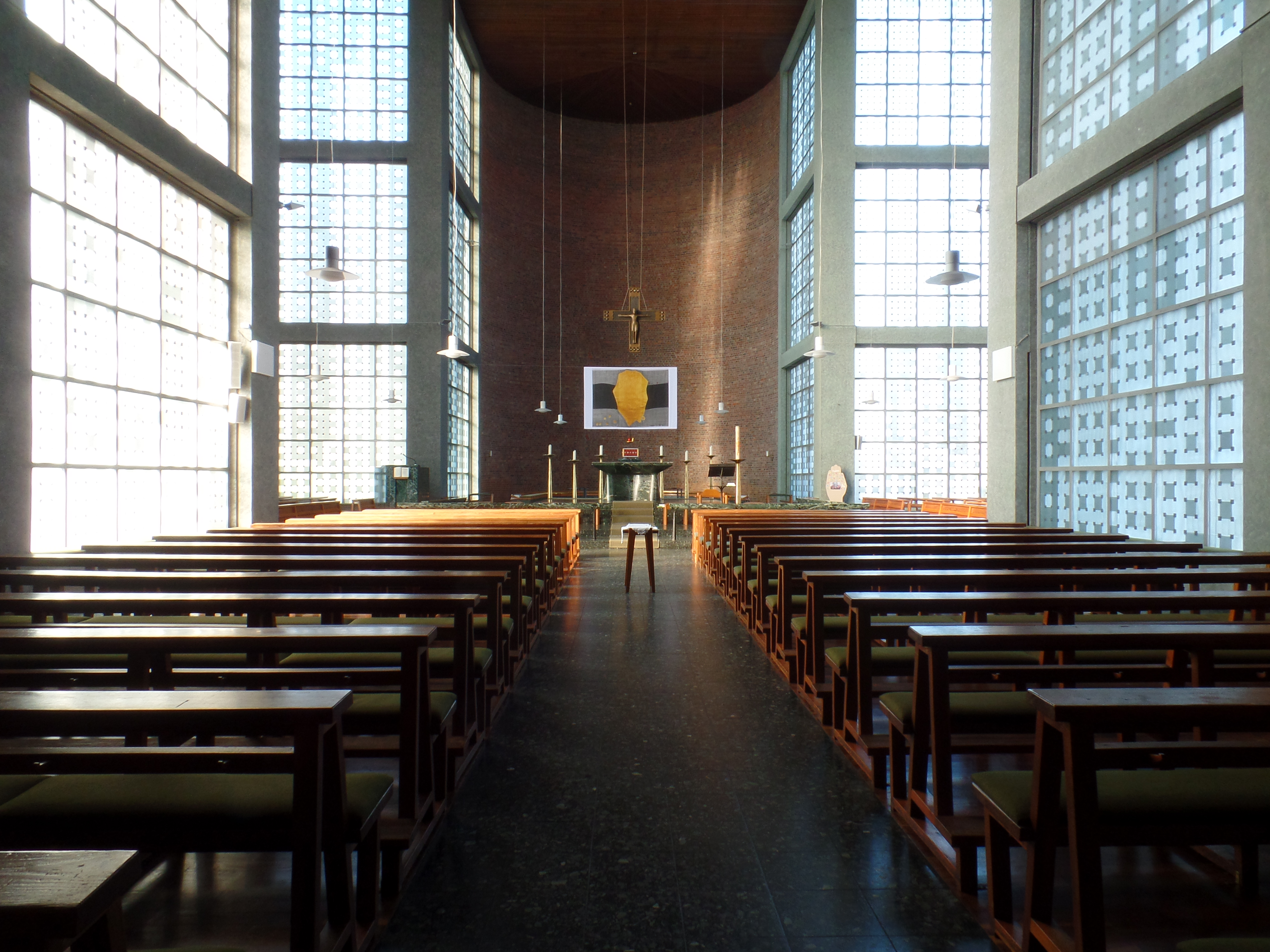 Parish Church St. Andrew in Rüttenscheid/Essen, Germany.